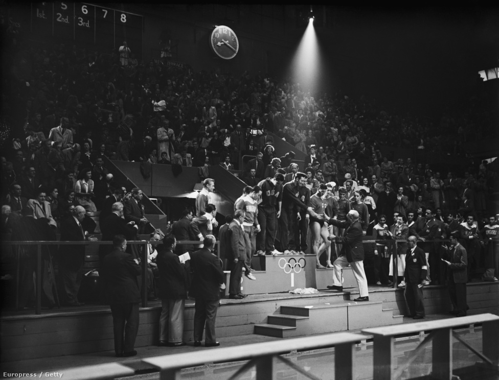 Medal ceremony for the 4 × 200 metre freestyle relay at the 1948 London Olympic Games, held in the Empire Pool, Wembley (now the Wembley Arena). The silver medal is being awarded to the Hungarian team of Szatmári Elemér, Nyeki Imre, Mitró György and Kádas Géza.